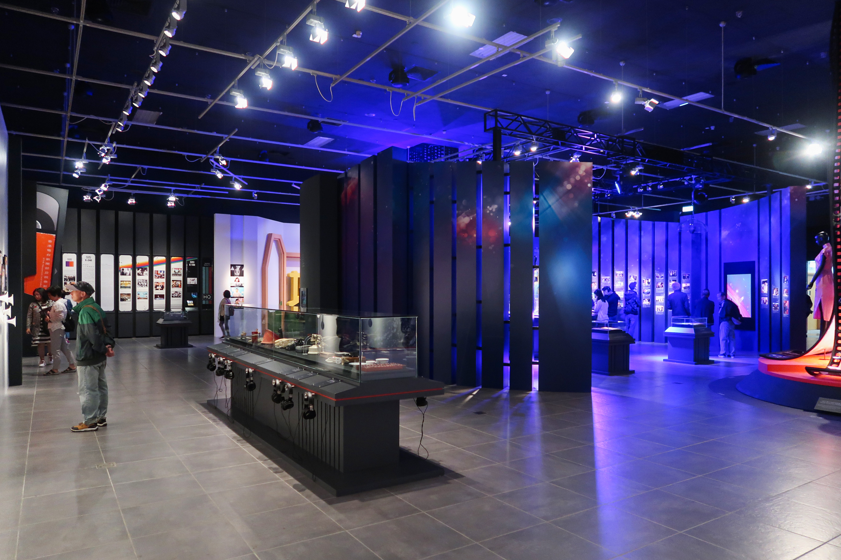 90 Years of Public Service Broadcasting in Hong Kong Exhibit